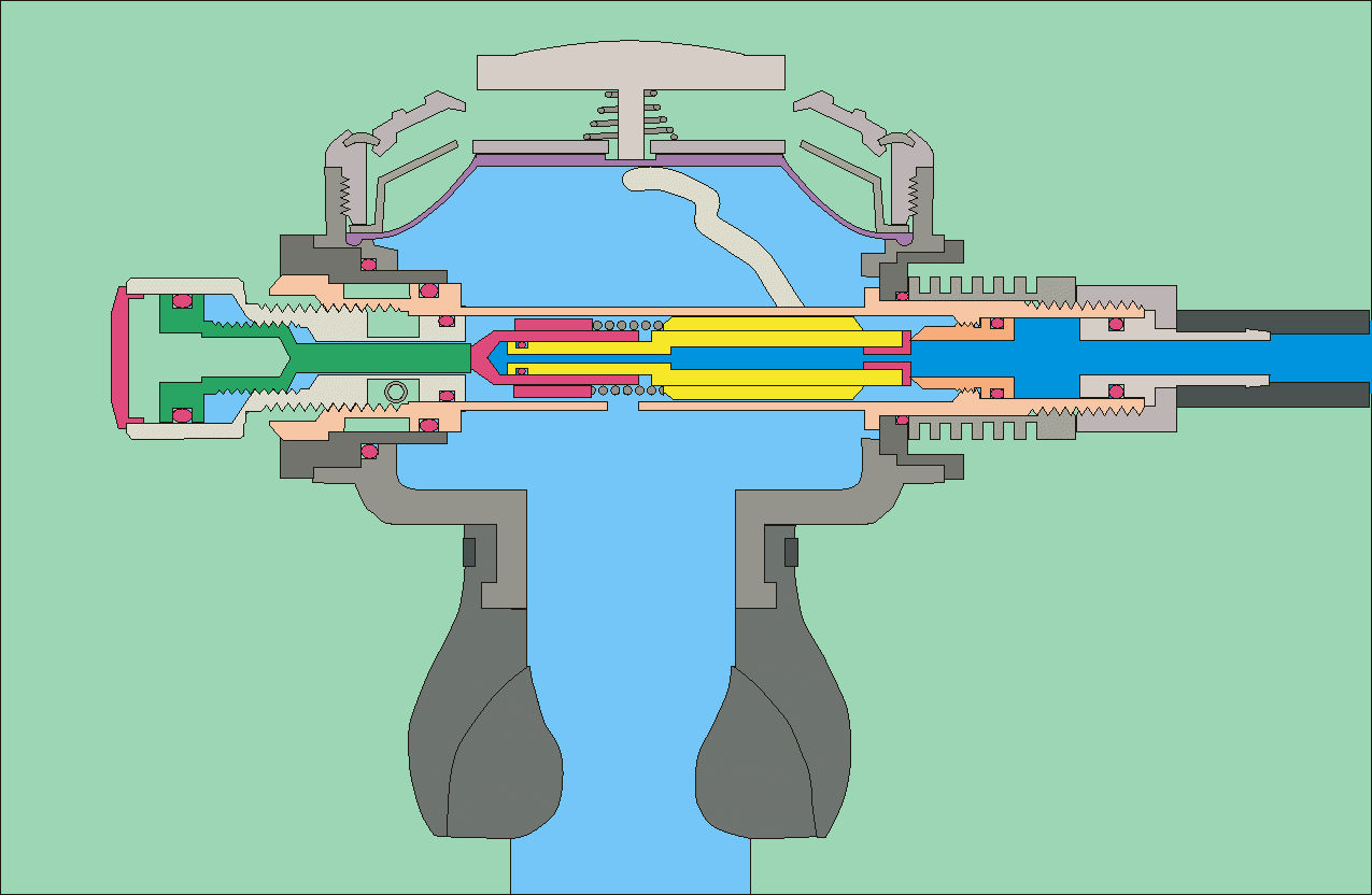 Schematic section of Scuba regulator 2nd stage. Valve closed